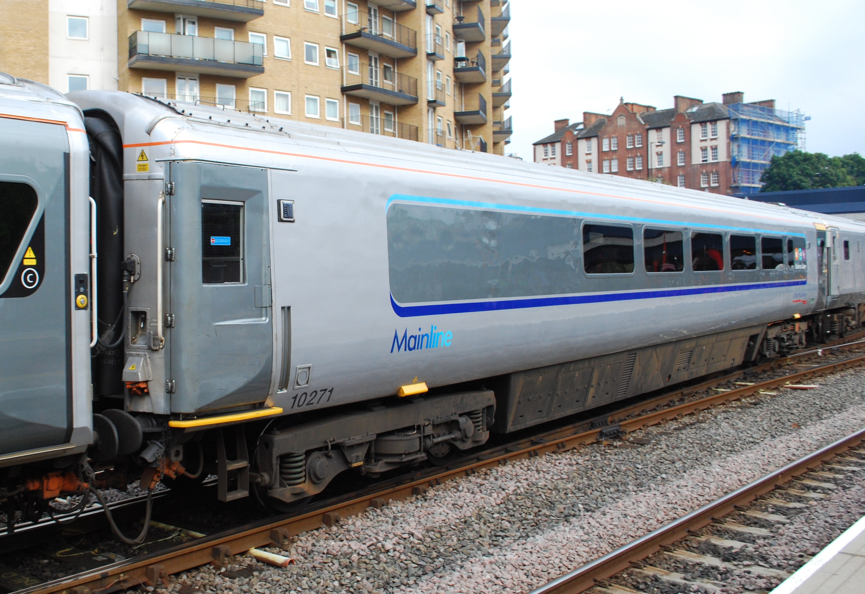 BR Mk.IIIa RFB No.10271 (converted from an HST Mk.III coach) of Chilterns Railway in their Mainline livery at Marylebone, 09/12.